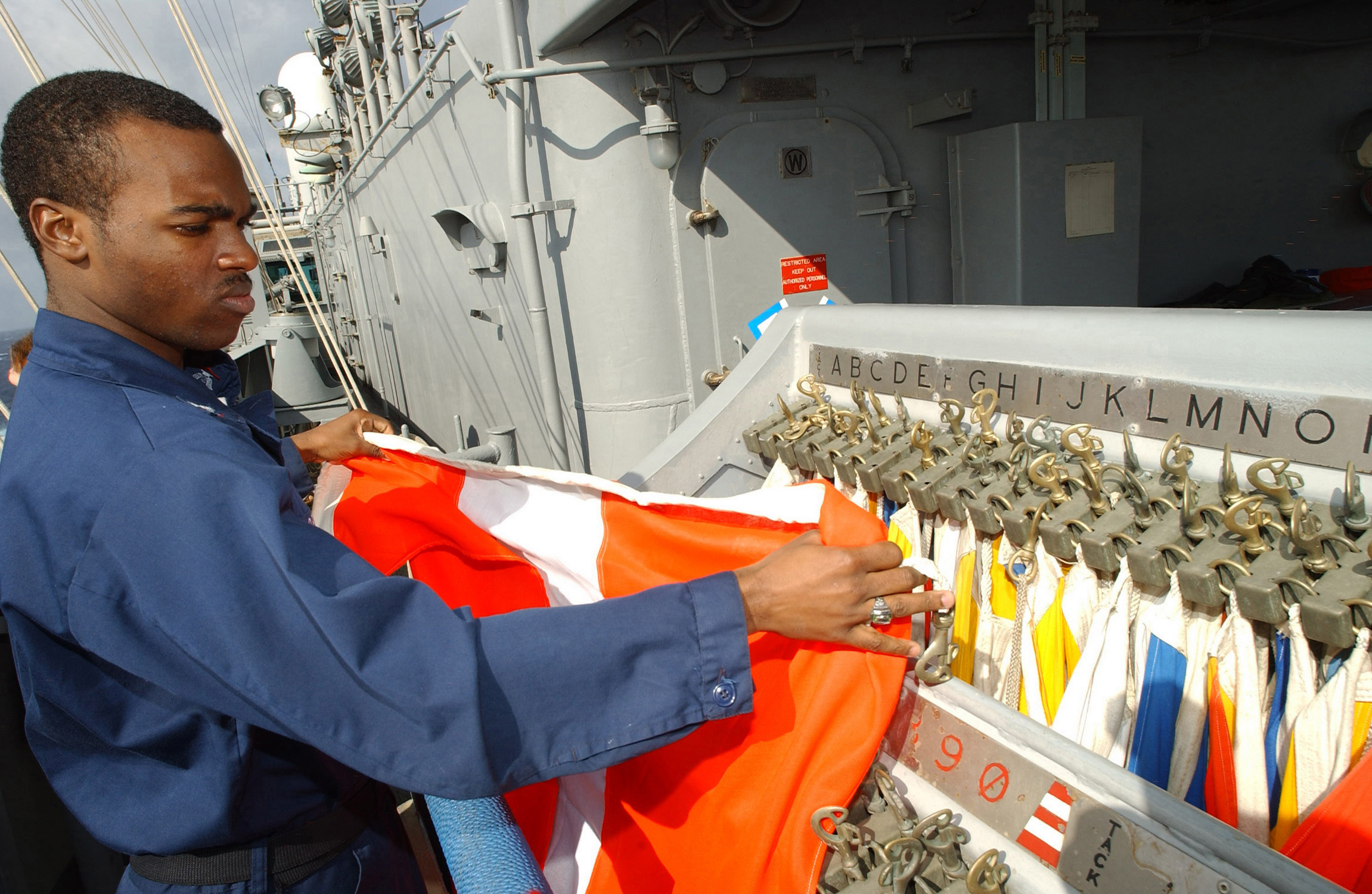 At sea aboard USS George Washington (CVN 73) Oct. 14, 2002 -- Signalman 3rd Class Quincey E. Bryant from Clambia, S.C., hoists flags on the signal bridge. The George Washington, homeported in Norfolk, Va., is participating in the NATO exercise “Destined Glory 2002.” Washington and her embarked Carrier Air Wing Seventeen (CVW-17) are approaching the end of scheduled deployment in support of Operations Enduring Freedom and Southern Watch. U.S. Navy photo by Photographer's Mate Airman Matthew Keane. (RELEASED)